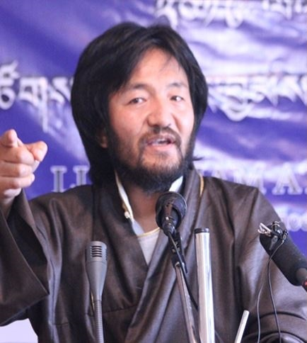 Lukar Jam and Penpa Tsering.